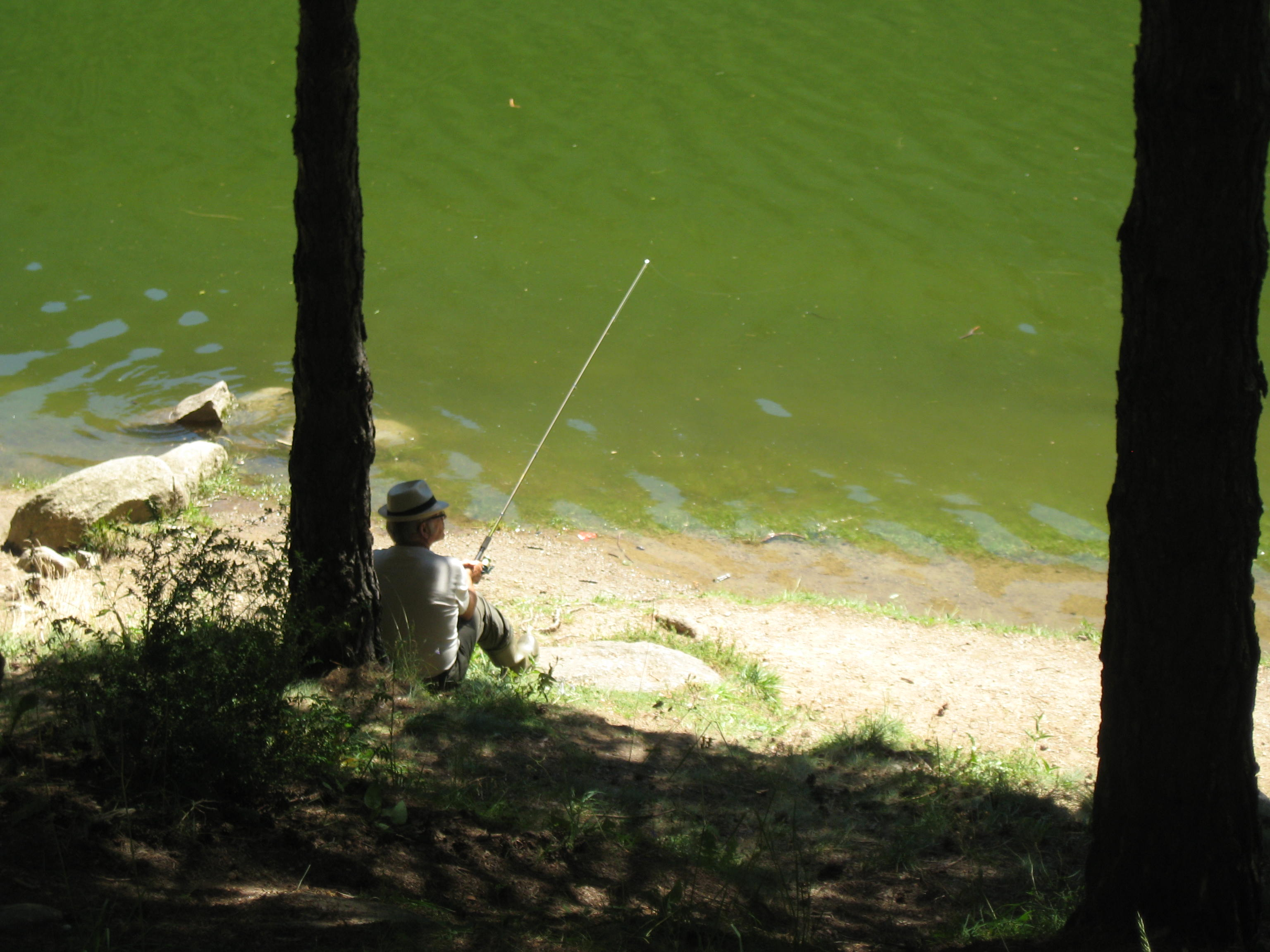 דייג באגם אנגולסטרס